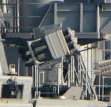 Sadral mounting on the Dupleix (D 641)